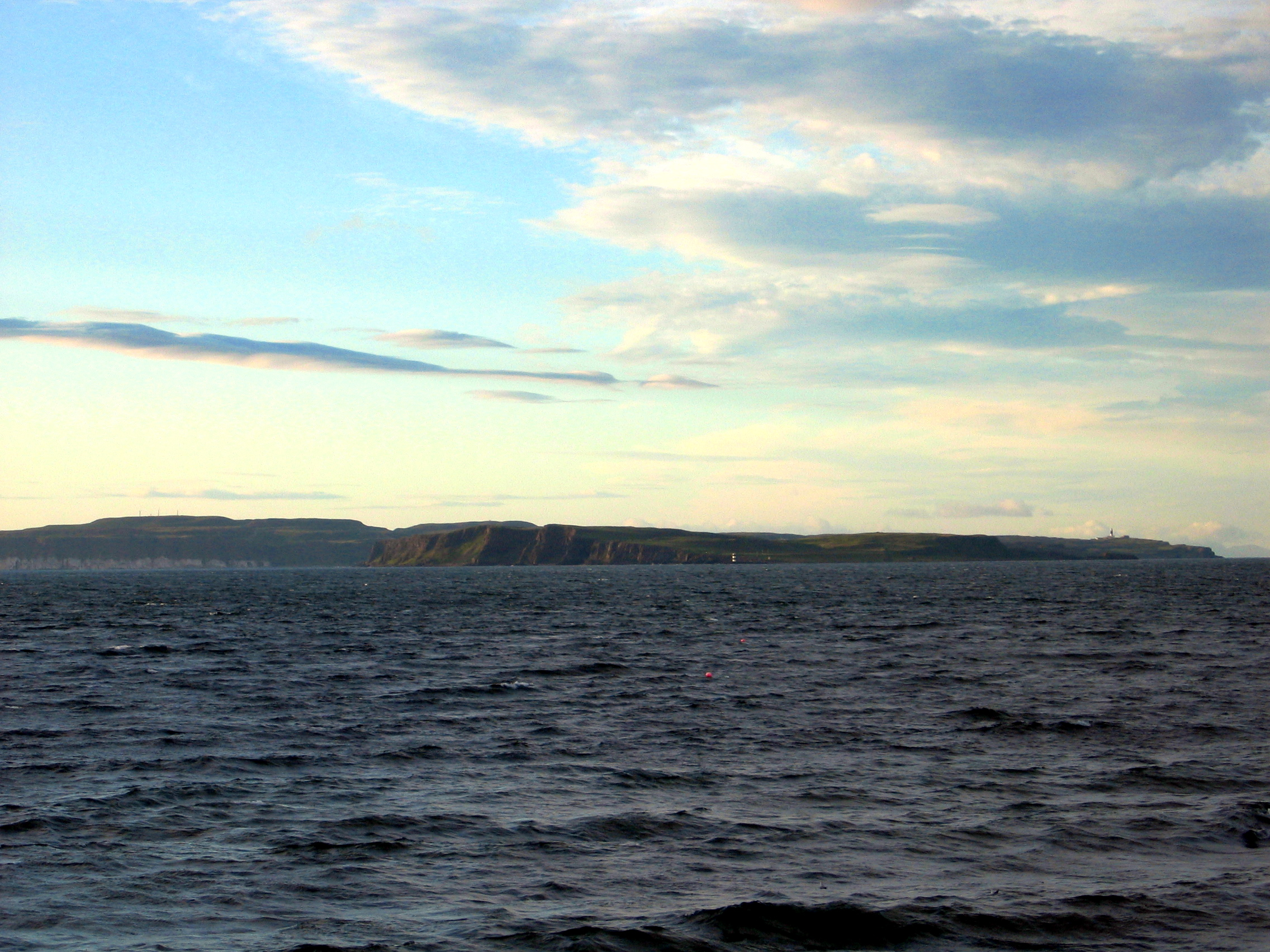 Two Lighthouses on Rathlin and two lobster pots in the water